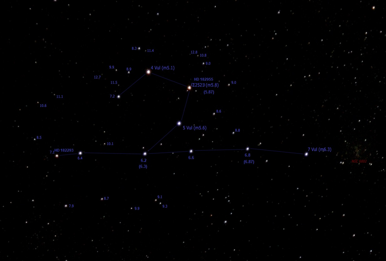 A photo of the Coathanger asterism, Collinder 399, also known as Brocchi's Cluster. Star labels and magnitudes are shown. 3x20 second images stacked with Deep Sky Stacker software, Canon 20D 200mm f5.0 ISO 1600